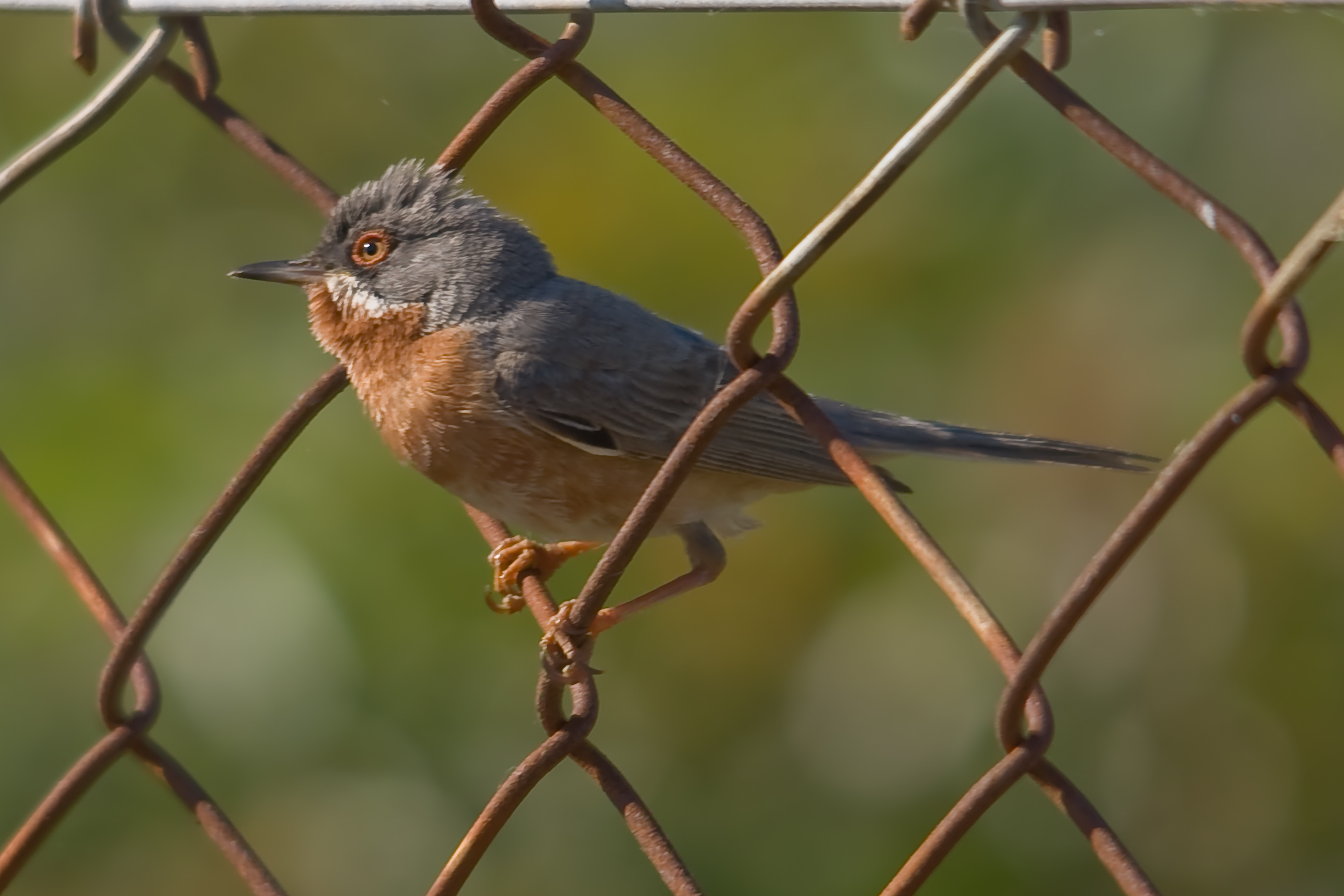 Subalpine Warbler Sylvia cantillans albistriata, Petra Reservoir, Lesvos, Greece